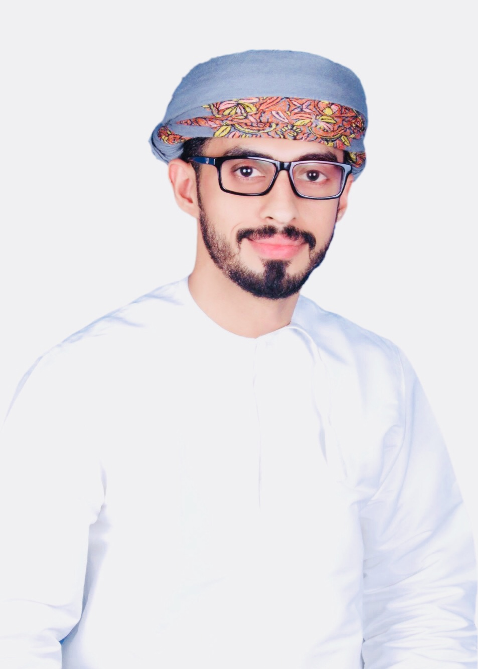 Mohammed Alfazari